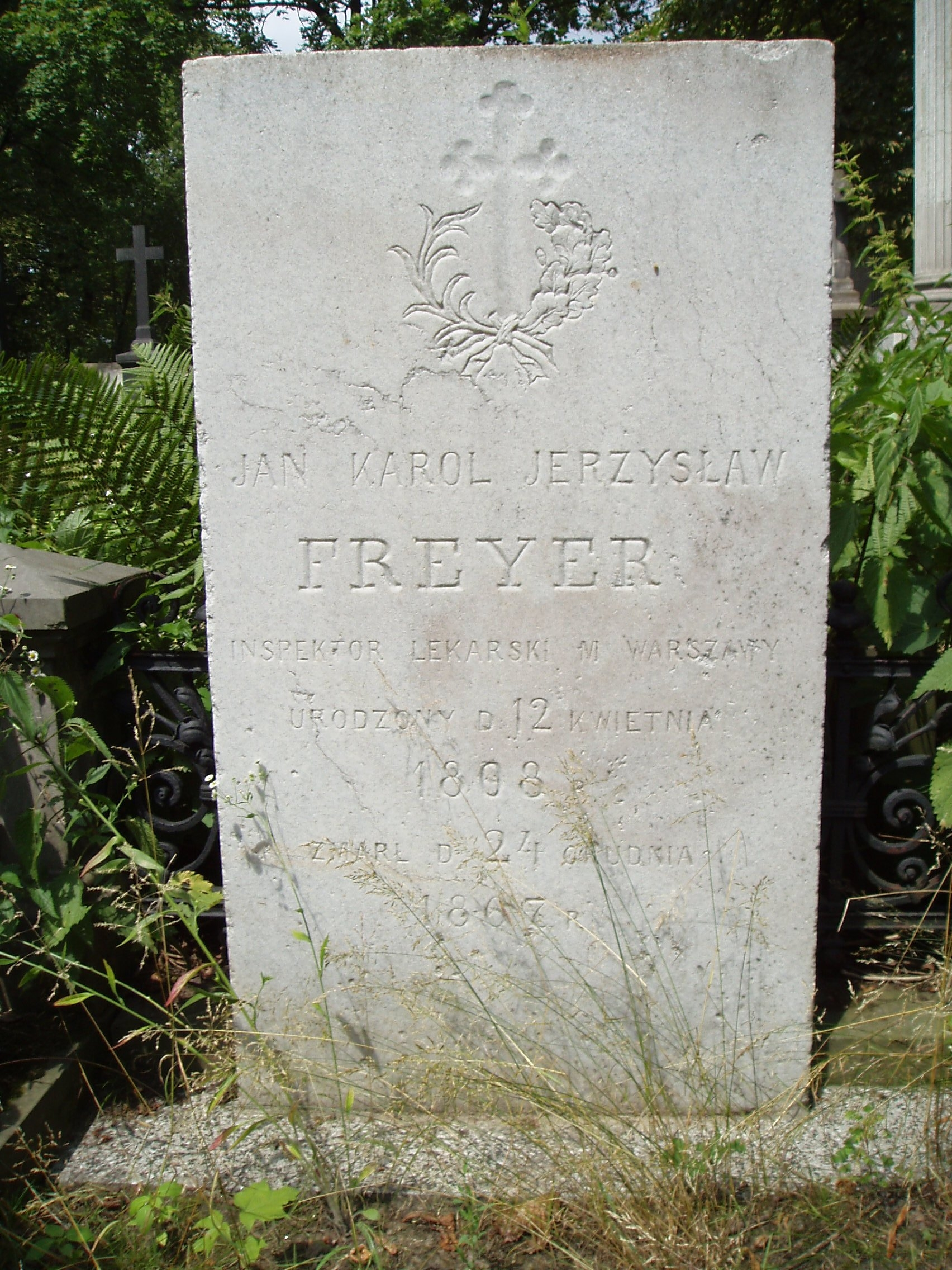 Jan Karol Freyer's headstone, lutheran cemetery in Warsaw